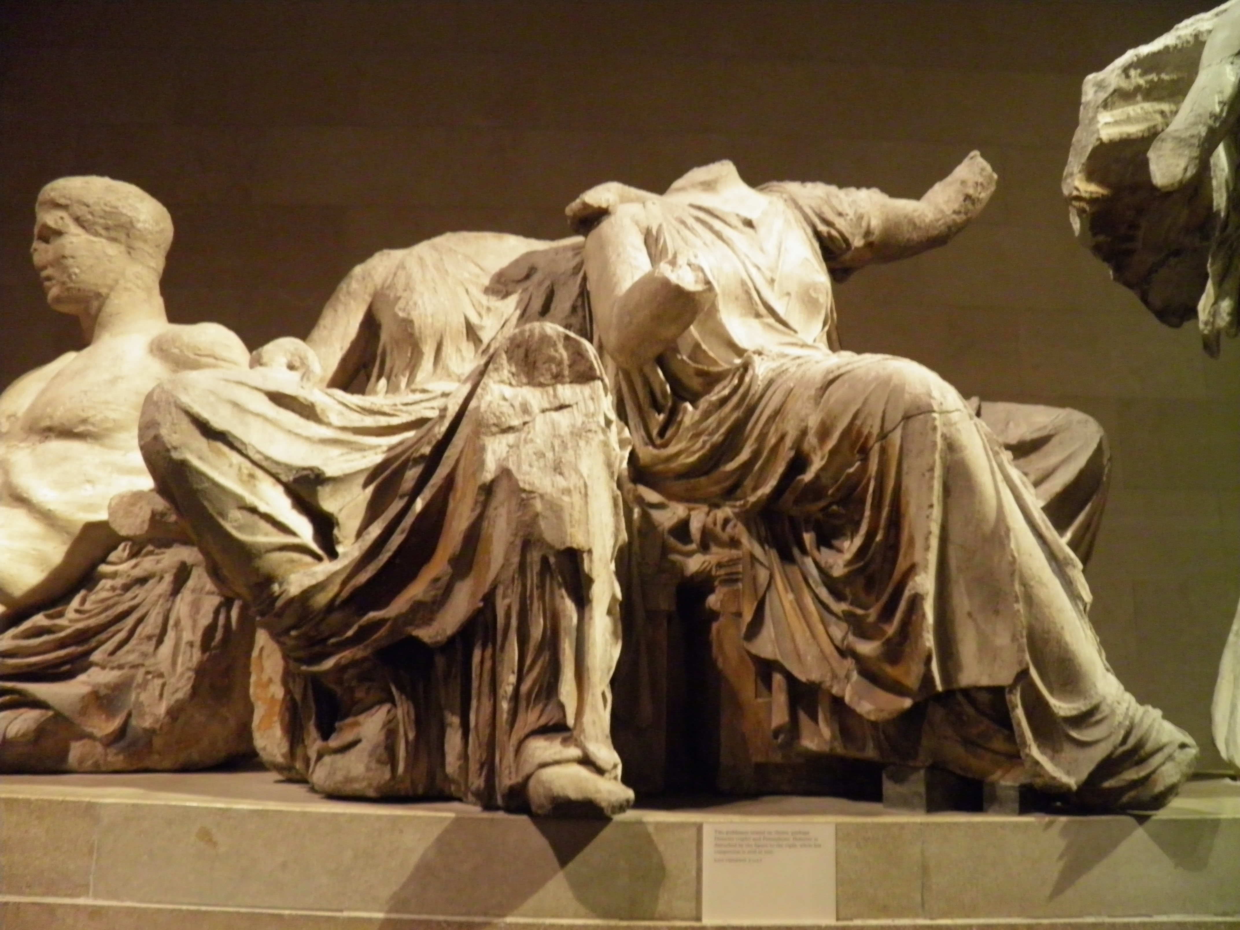 British Museum